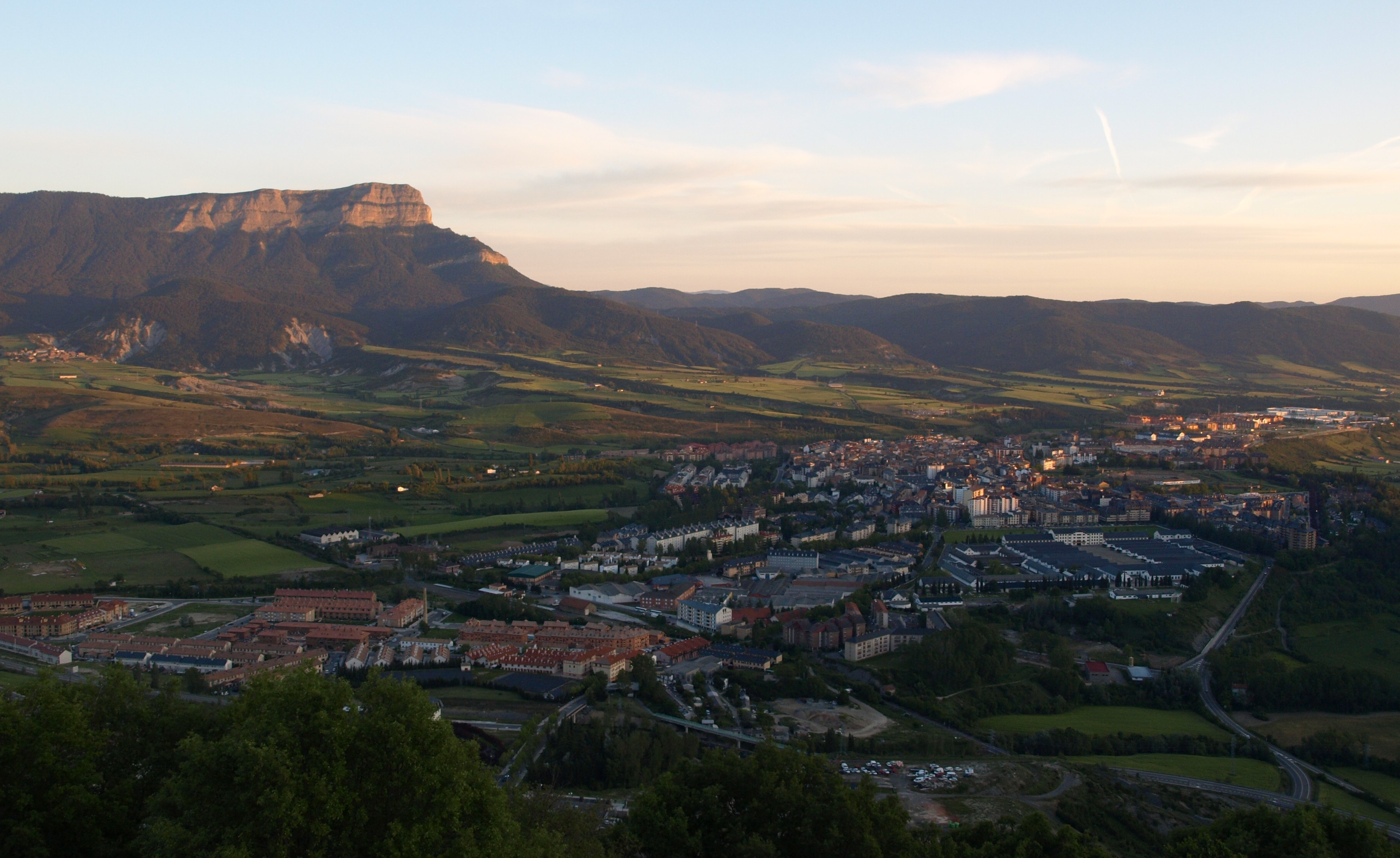 Panoramic view of Jaca (Aragon, Spain), taken from the Rapitan fortress hill.